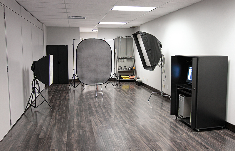 Mark's studio, home base for all of our great product and people shots.